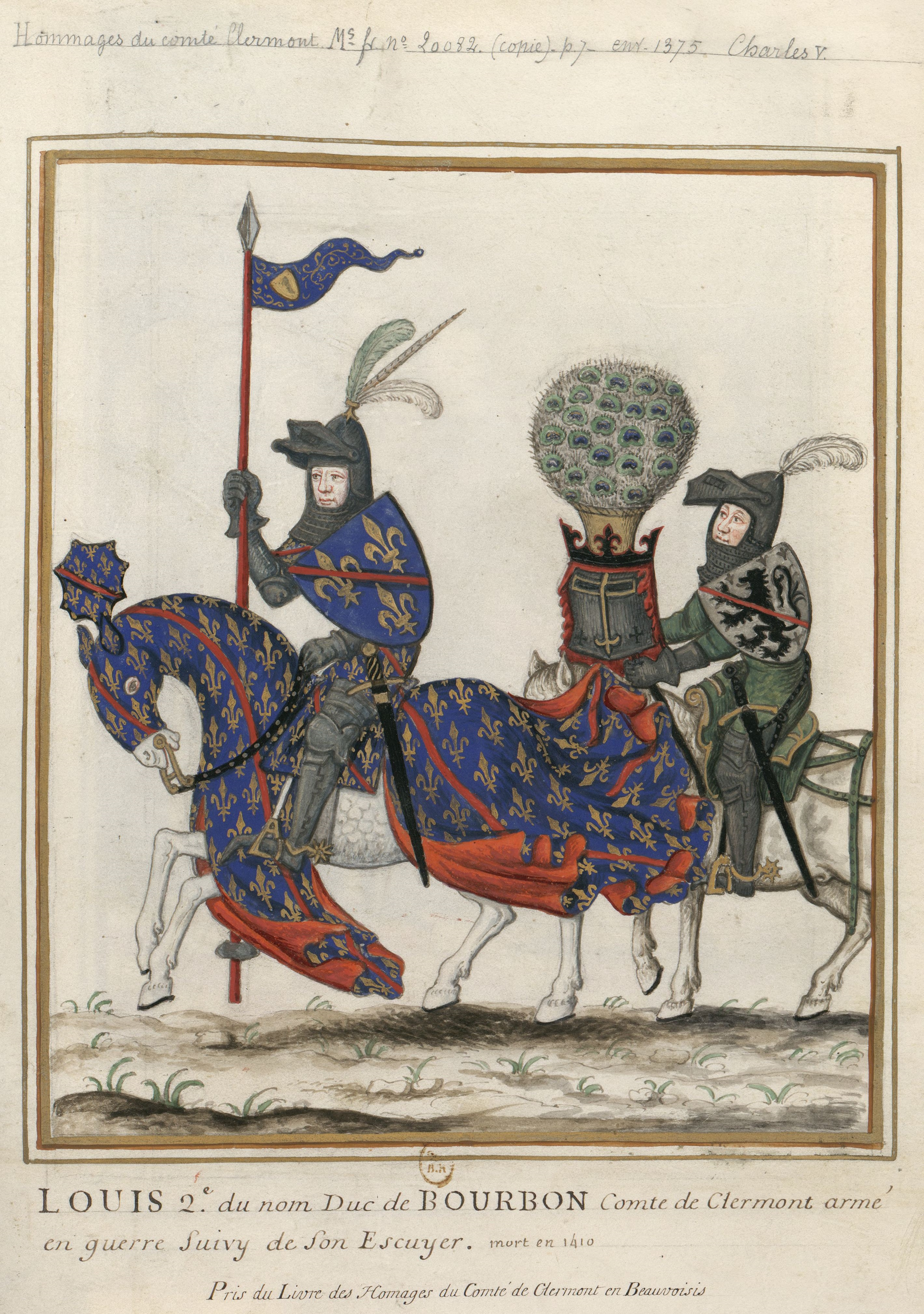 Louis II of Bourbon.